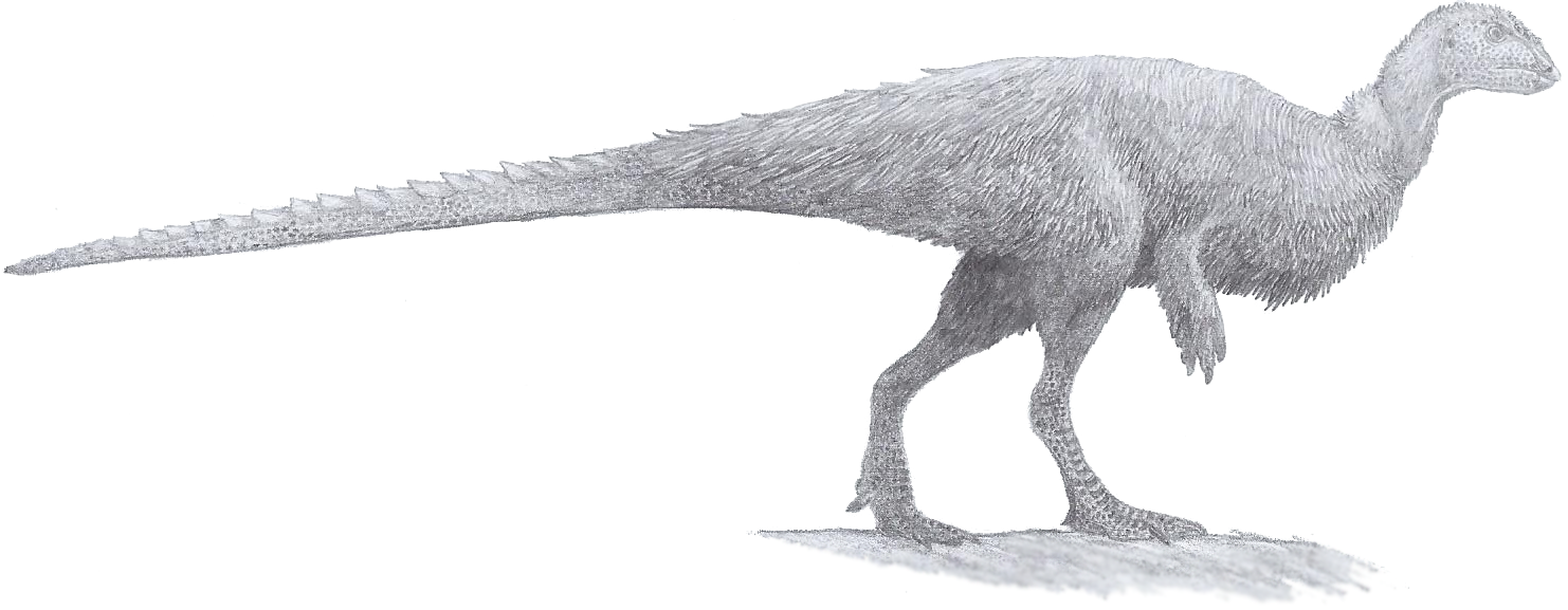 Orodromeus reconstruction by Tom Parker (Tomopteryx/Tomozaurs).